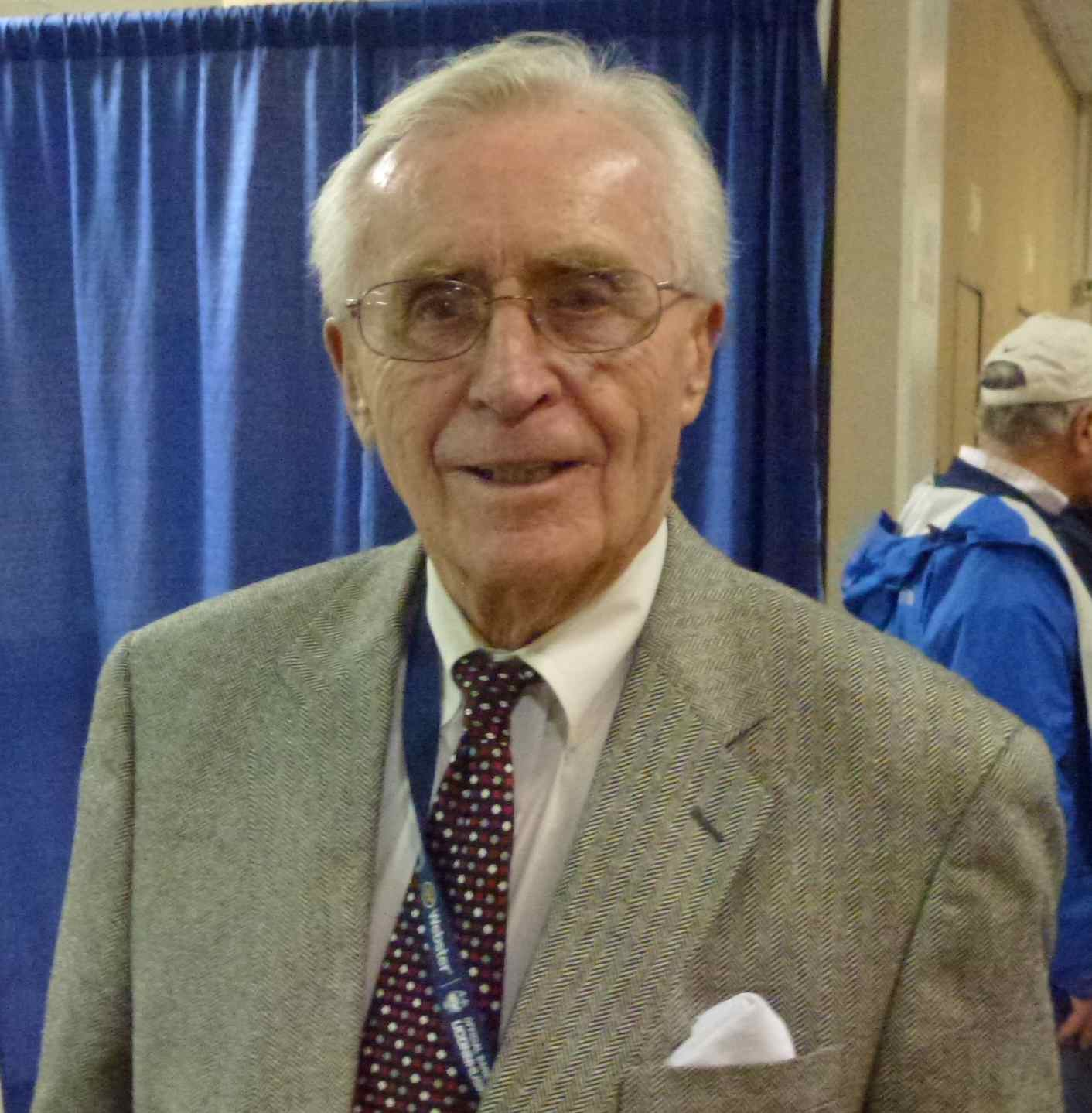 Dee Rowe, former coach of the University of Connecticut men's basketball team, taken at a pre-game reception in the XL Center in Hartford CT